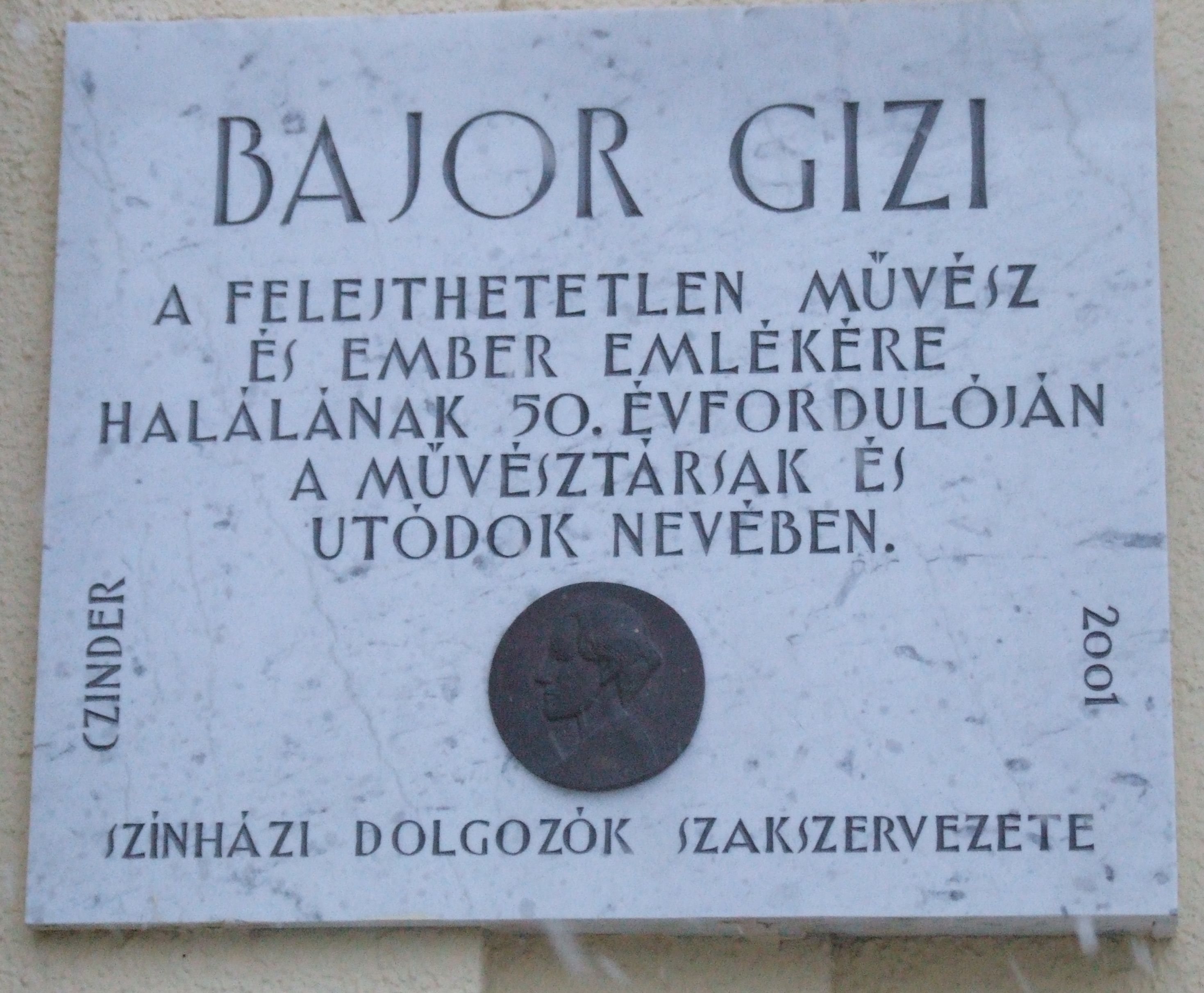 Commemorative plaque of Gizi Bajor, Budapest District XII, Stromfeld Aurél Street No 16